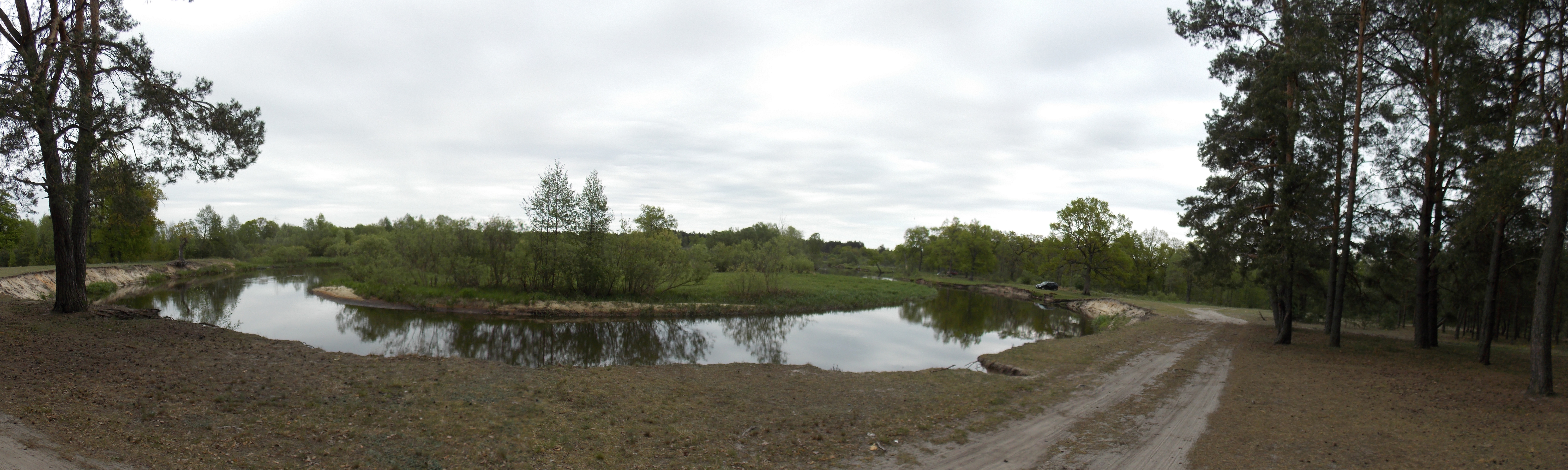 Sluč River near Novyja Milievičy